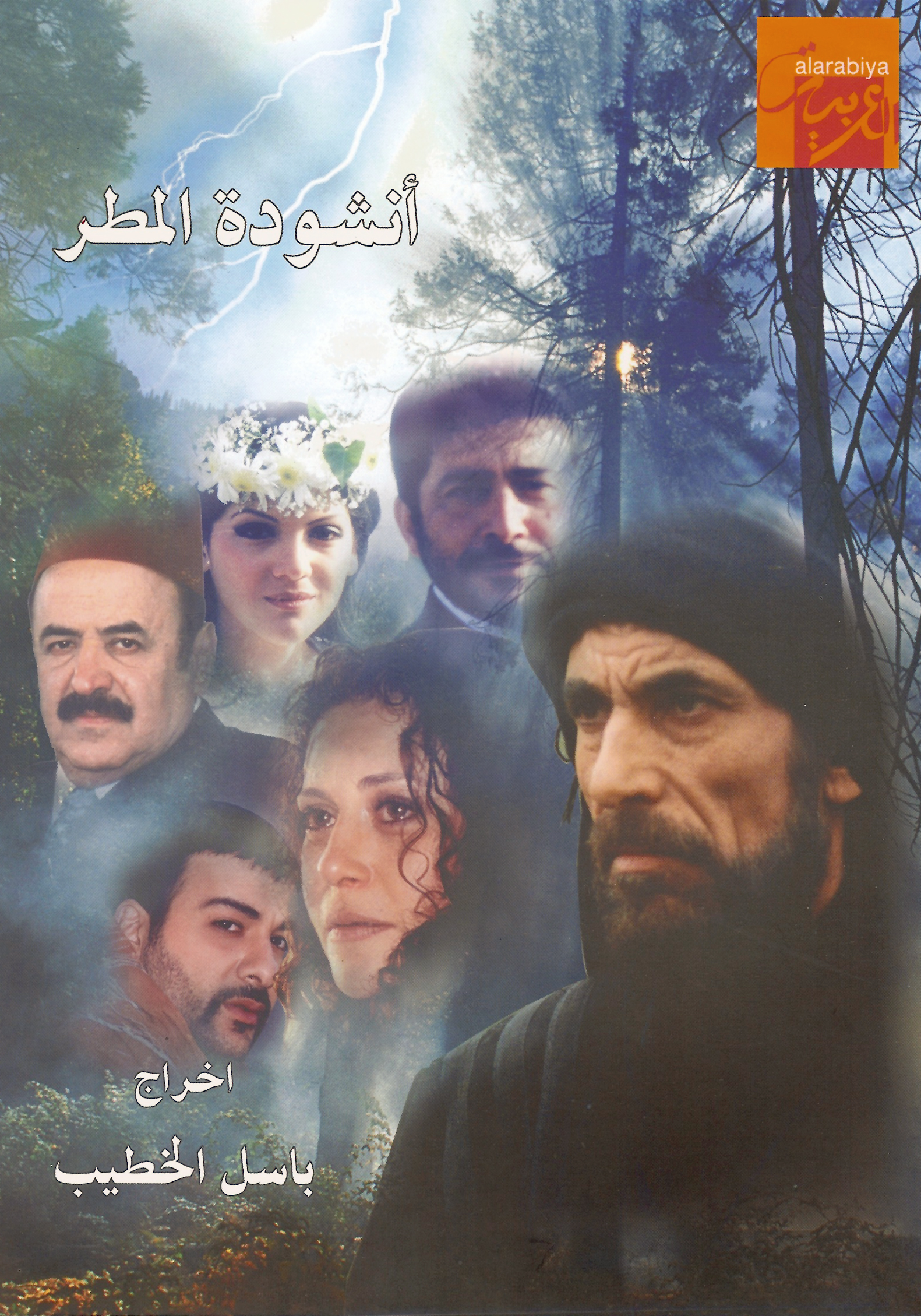 Poster of the Drama series - Unshoodat Al Matar أنشودة المطر